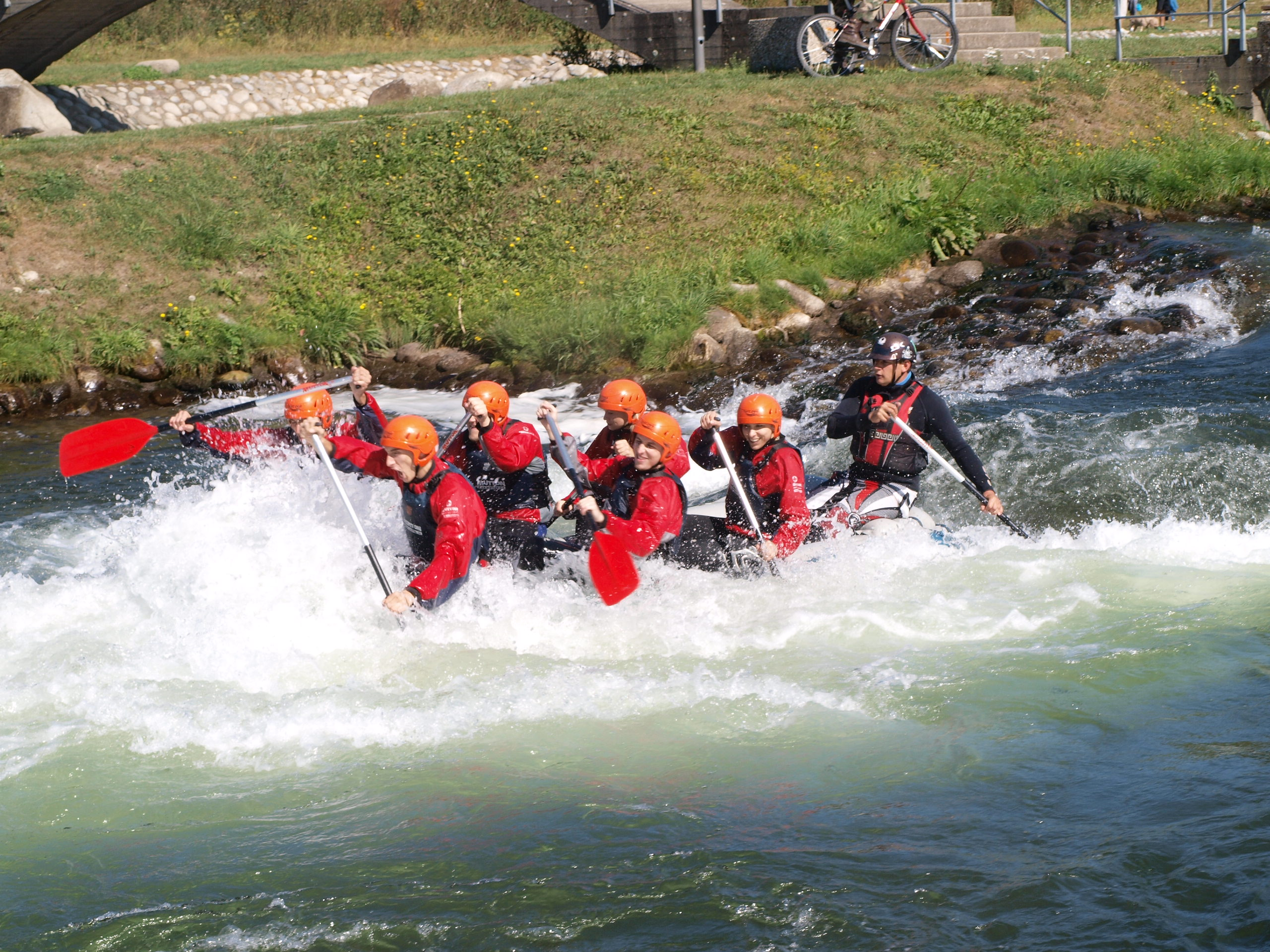 Rafting AVS Liptovský Mikuláš, Slovakia. This group was having fun with instructor from Mutton s.r.o.